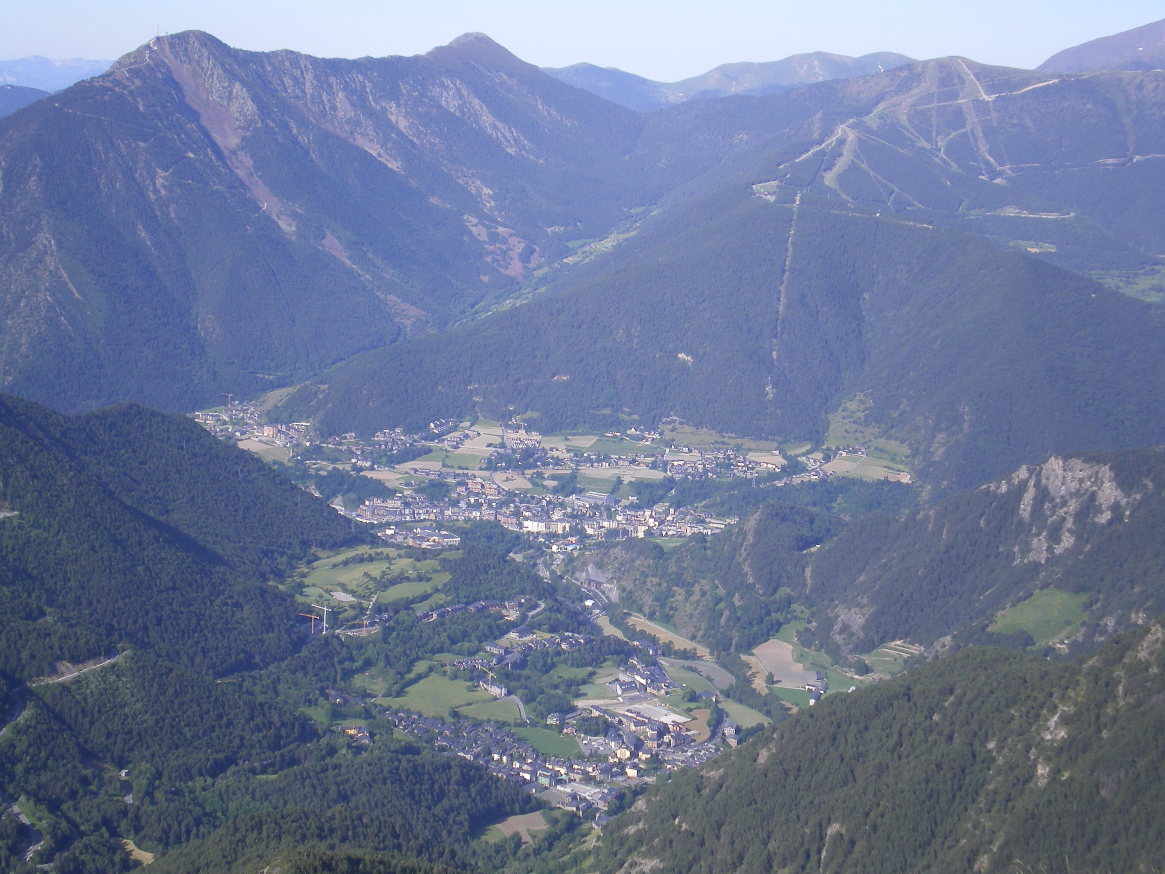 La Massana (town) in the background, Ordino (town) in the foreground. Andorra; view is from peak of Casamanya (2740 metres). The Pal ski resort and a gondola lift can be seen on the mountain above La Massana town.